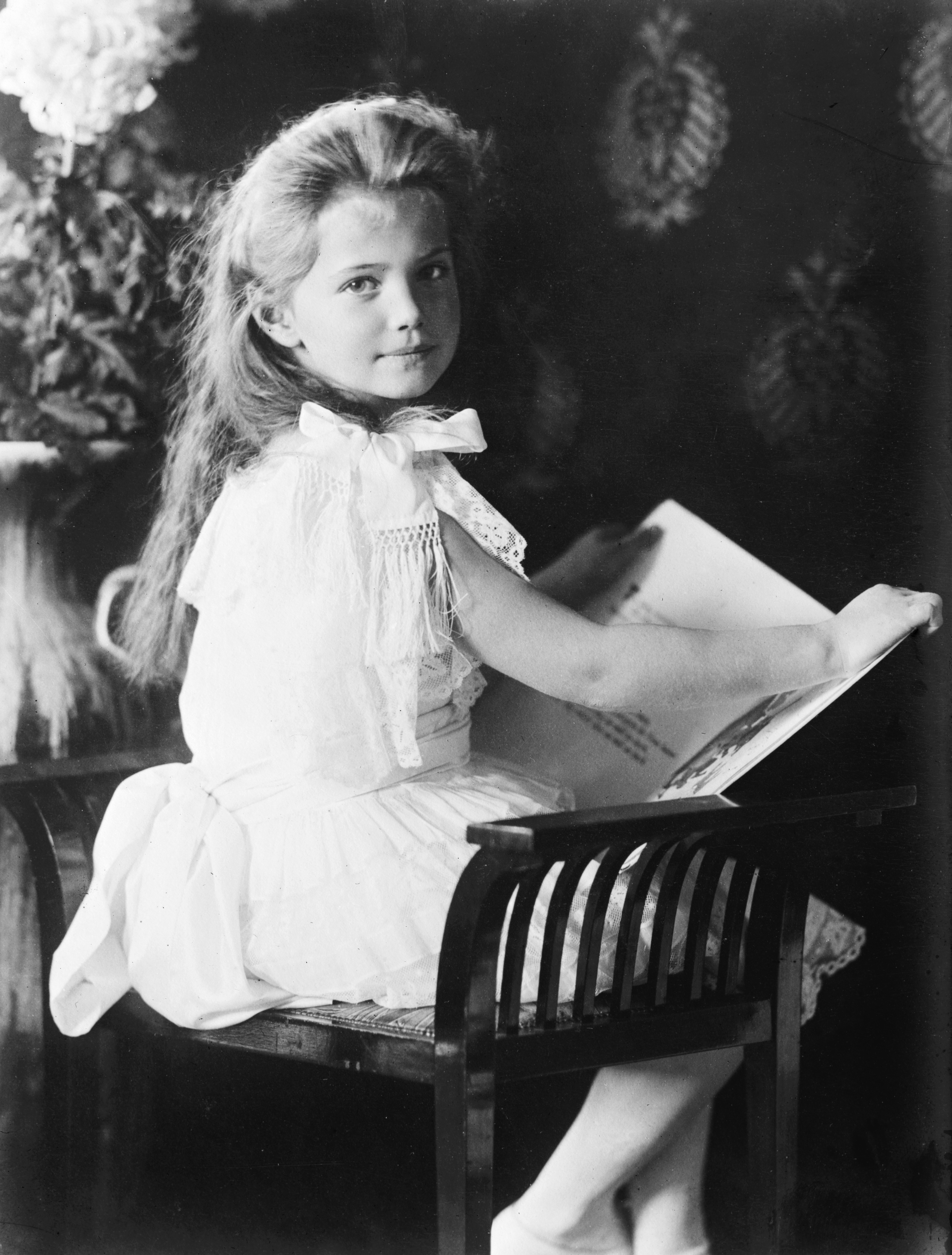 Grand Duchess Maria Nikolaevna of Russia (1899-1918) in 1906.